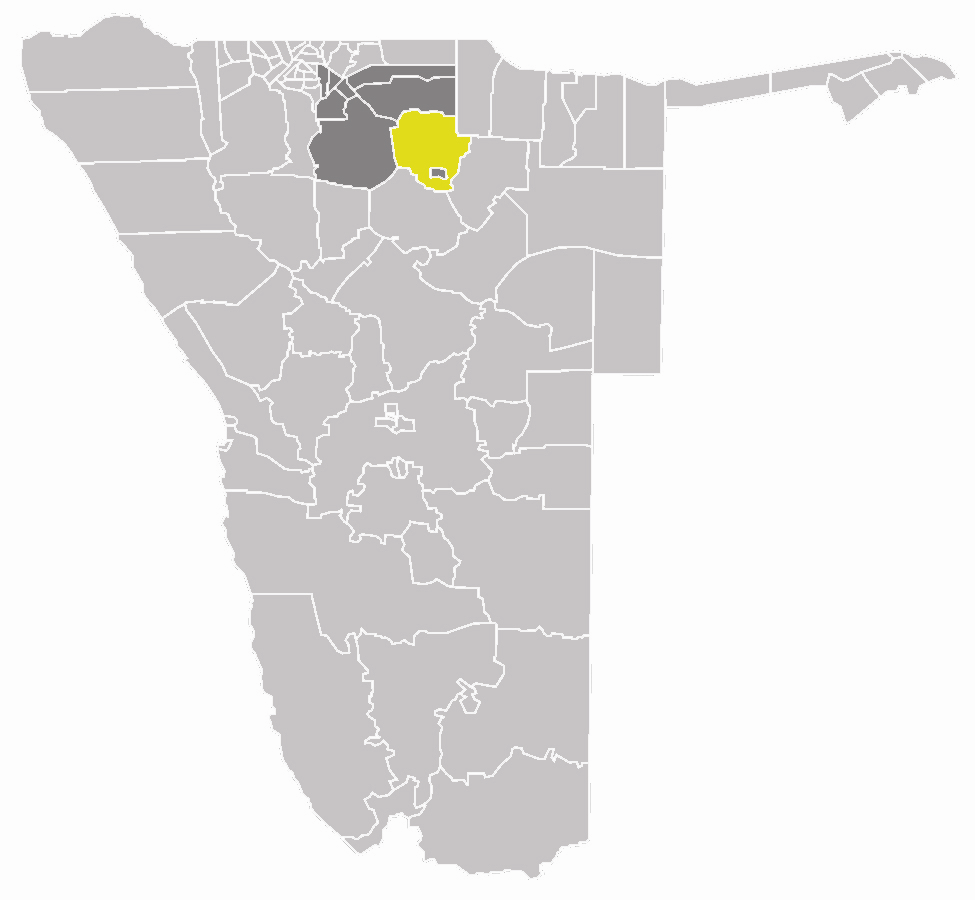 map of the Guinas constituency within the Oshikoto region, Namibia